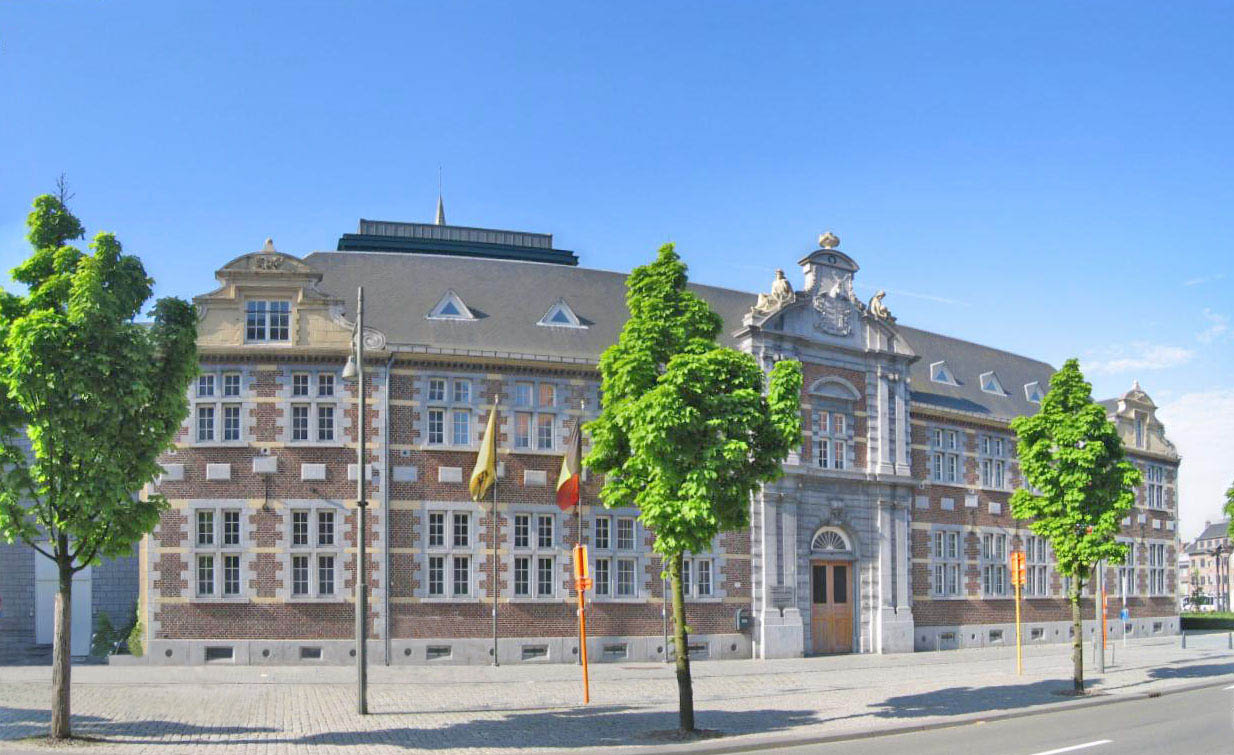 Old Hospice